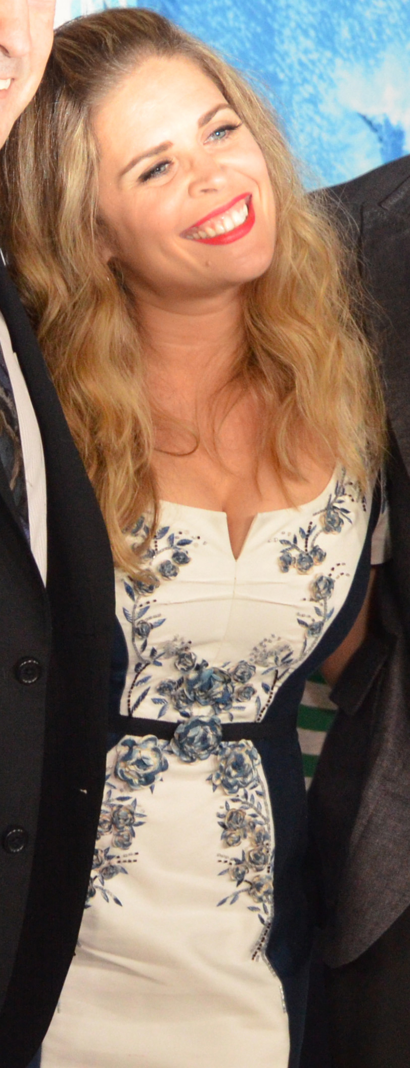 Writer and co-director Jennifer Lee at the world premiere for Disney's Frozen at the El Capitan Theatre on November 19, 2013.